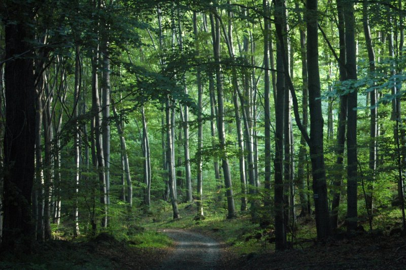 Beech forest, Vtáčnik, Slovakia